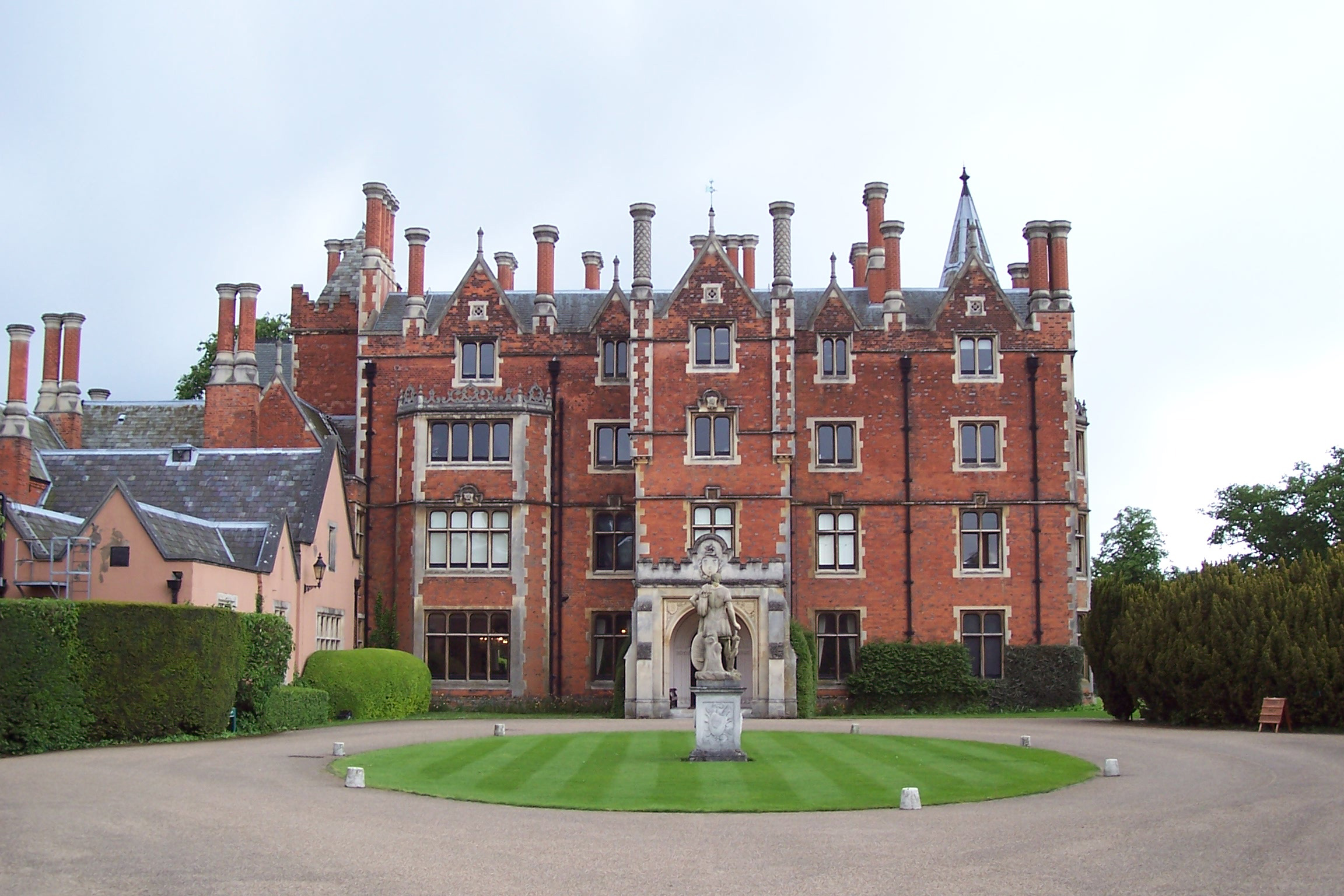 Taplow Court, Taplow, Buckinghamshire, UK - frontside